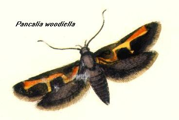 The Manchester Tinea (Euclemensia woodiella) (now extinct) painted by John Curtis in the 1850's